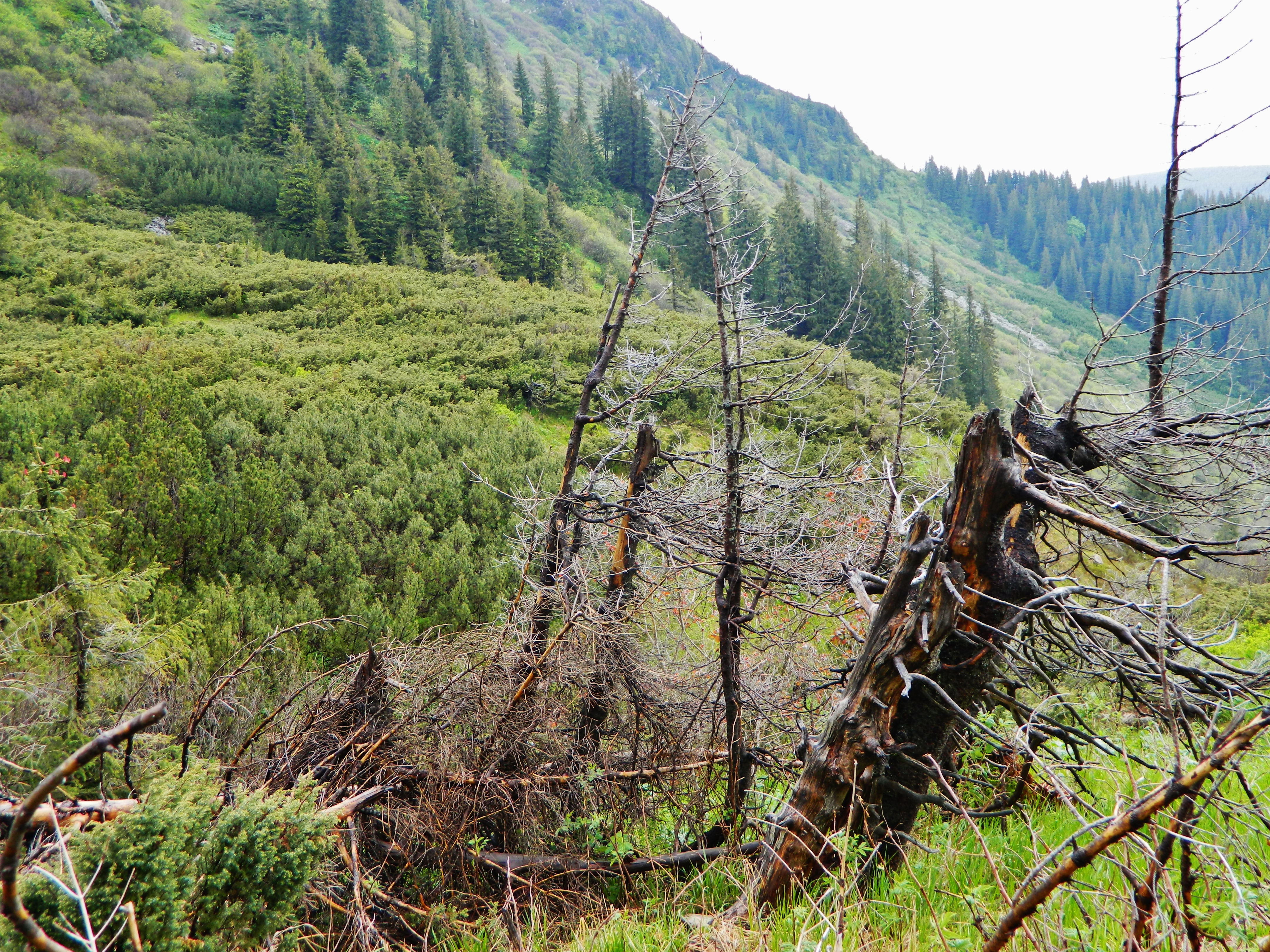 Picea abies trees broken by snow on Pozhyzhevska, Chornohora range, Ukrainian Carpathians